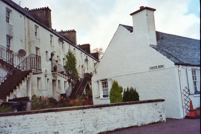 Back of Main Street, and Fisher Row